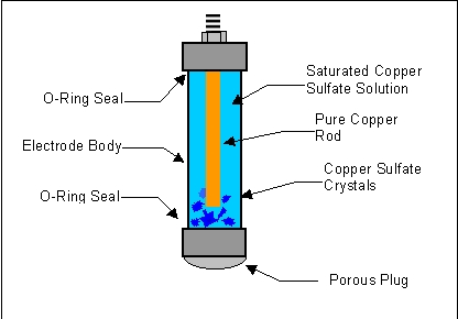 Diagram of a Copper-copper(II) sulfate electrode. By Cafe_Nervosa.